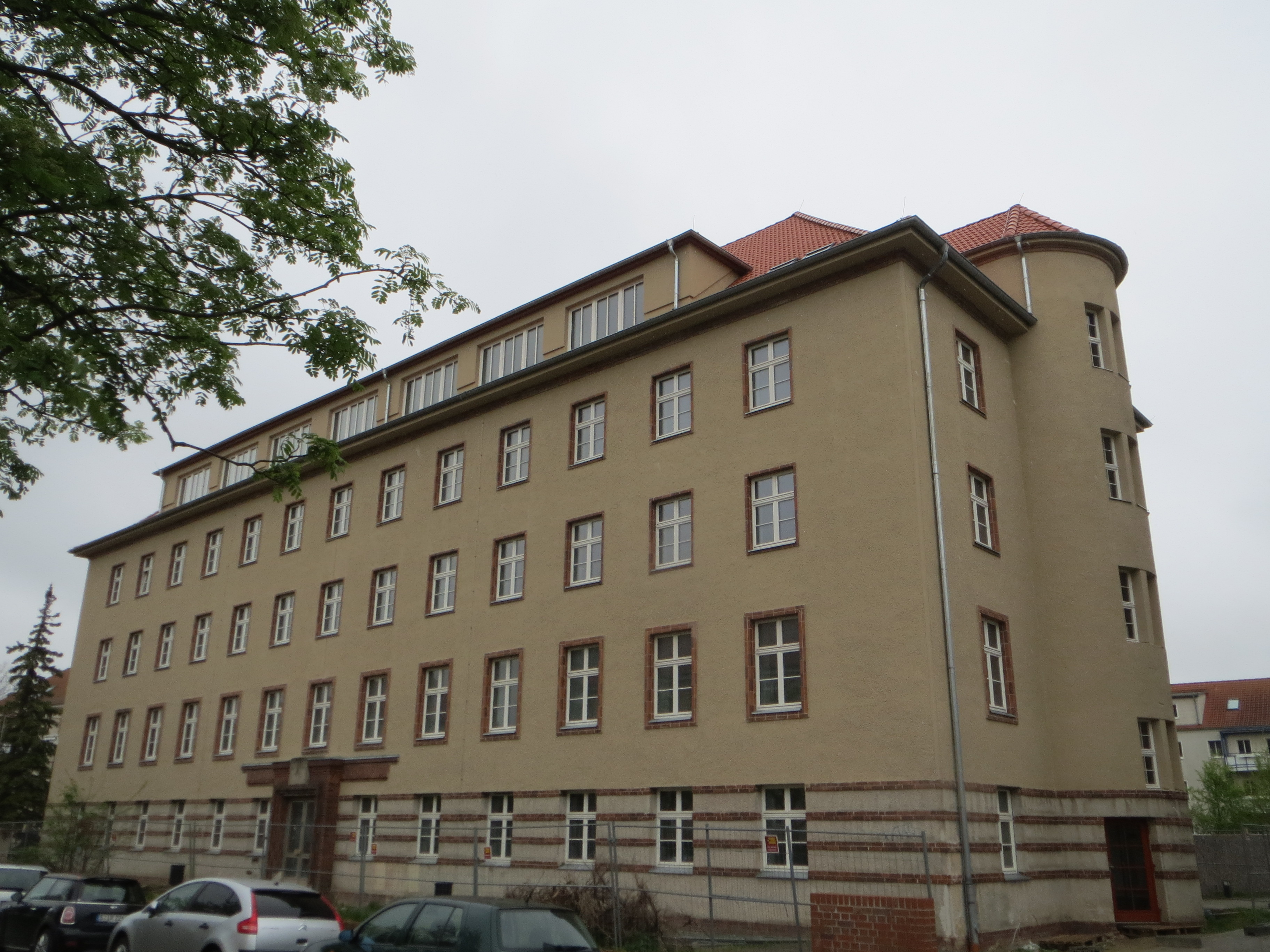 Johannes-Stelling-Straße 30 in Greifswald: former Reichsbahndirektion